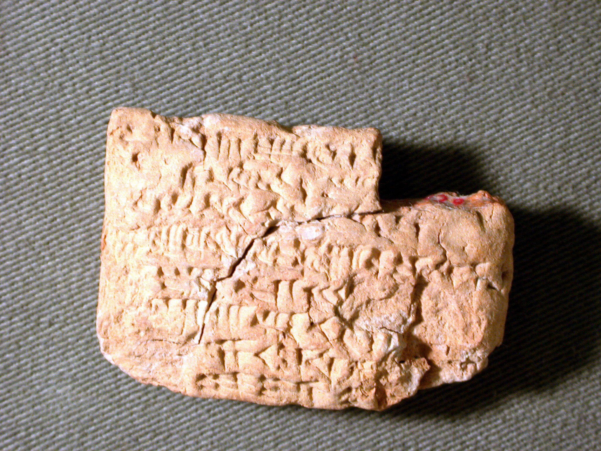 Cuneiform tablet recording a silver payment, from the Ebabbar archive. Ebabba is the name of the ancient temple of the sun-god Shamash in the city of Sippar, in Babylonia. Hundreds of administrative texts from this temple were found, many of them recording such expenditures from the institution. Silver was the main mean of exchange during this period. Edition and translation: I. Spar and M. Jursa, Cuneiform Texts in the Metropolitan Museum of Art. Volume IV: The Ebabbar Temple Archive and Other Texts from the Fourth to the First Millennium B.C., New York, The Metropolitan Museum of Art and Eisenbrauns, 2014, pp. 151-152 (text no. 97).